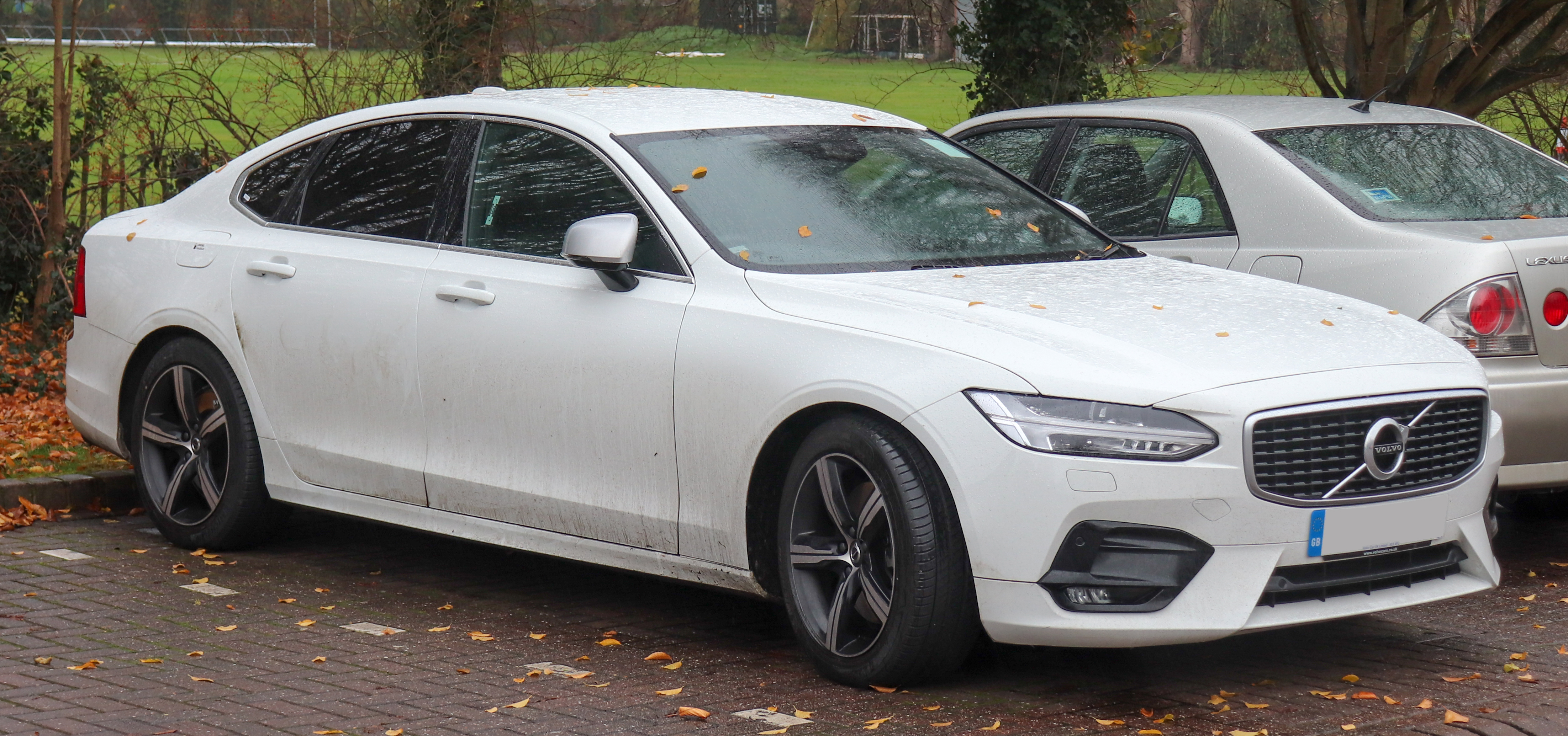 2018 Volvo S90 R-Design D5 PowerPulse Automatic 2.0 (Messy) Taken in Stratford-upon-Avon